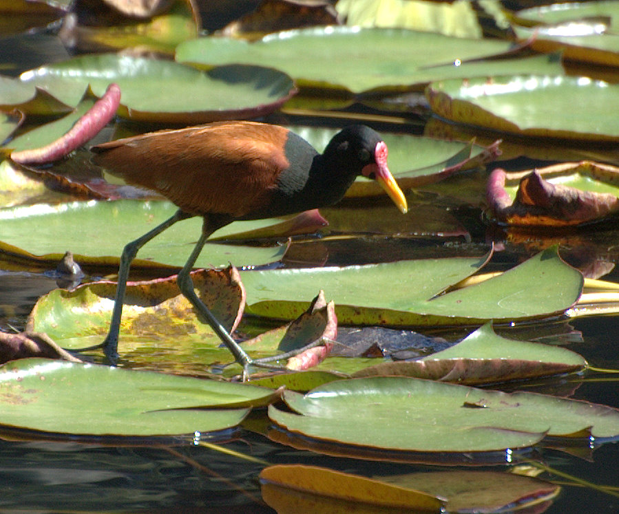 A Wattled Jacana at Sao Paulo Botanical Gardens, Brazil.